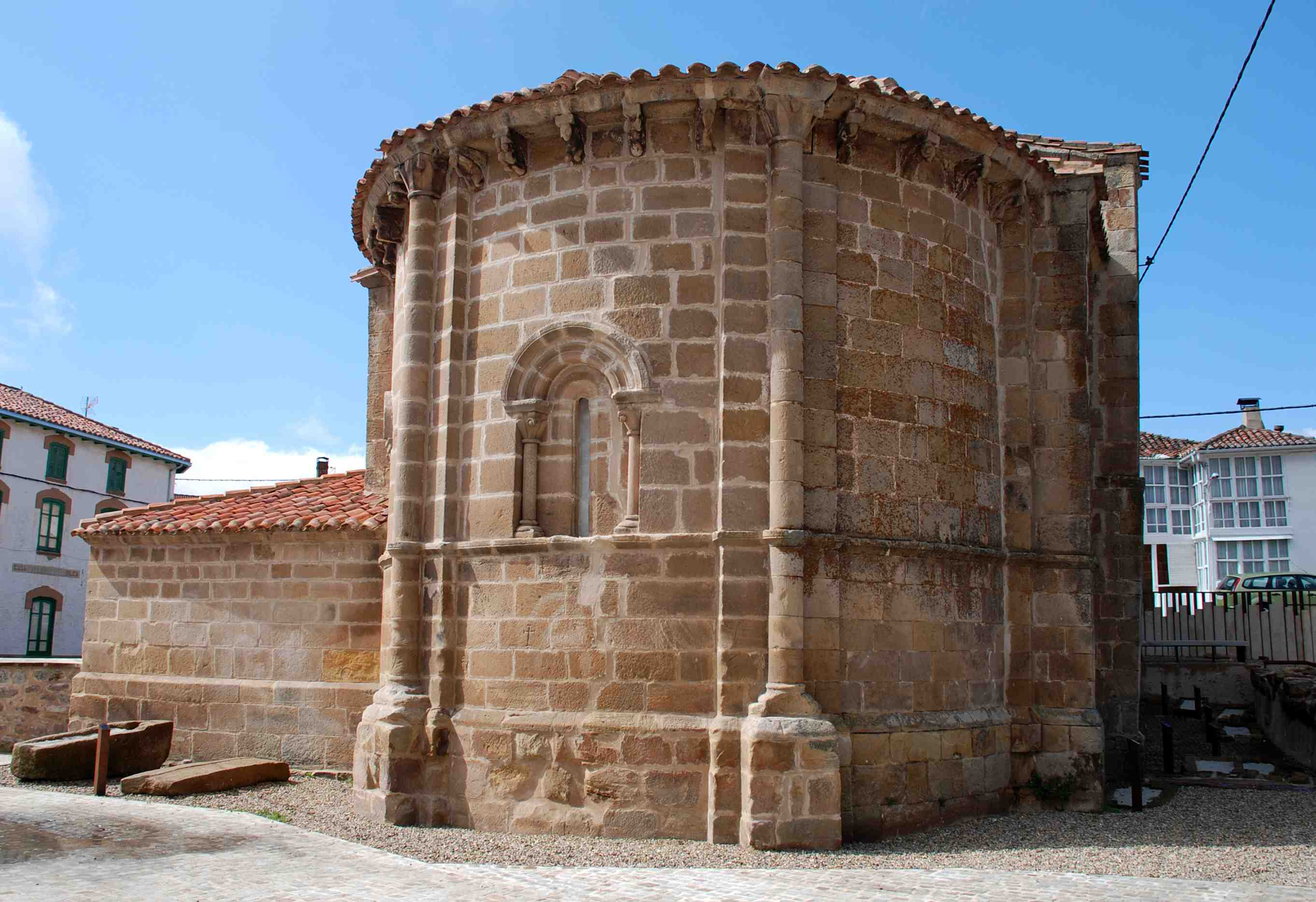 St. Mary's Church in Cillamayor (Palencia, Castile and León). The semicircular apse presents oven Vault slightly pointed, while the nave and presbytery are covered with barrel vault, it is pointed at the presbytery. Inside, two simple mouldings of nacela run it at Windows startup and the start of the vault. The nave roof is supported by transverse arches that lie in brackets. Outside of the apse download forces in two pilasters that you attach semicolumnas crowned by capitals, vertically splitting drum at three levels. The central space and the epistle are open by a semicircular flanked at home and abroad by colonettes vain. As usual, a row of canecillos decorates forward along the perimeter of the apse, while the lower level is underlined by a small socket or low podium. A molding surrounds the House at the height of the two Windows boot. This semicircular apse is common and distinctive to the geography of North of Palencia and Burgos. Tipológicamente is related to the chapels of St. Cecilia Vallespinoso Aguilar and Santa Eulalia in Barrio de Santa María. We maintain one of three entries that should have the building, currently only. It is a medieval - cover late 13th century or beginning of the 14th-opened on the south wall that is protected by a modern Atrium. It consists of a round arch surrounded by triple archivolt resting on shank jambs. On top of it, a window decorated with Romanesque vegetable carving.